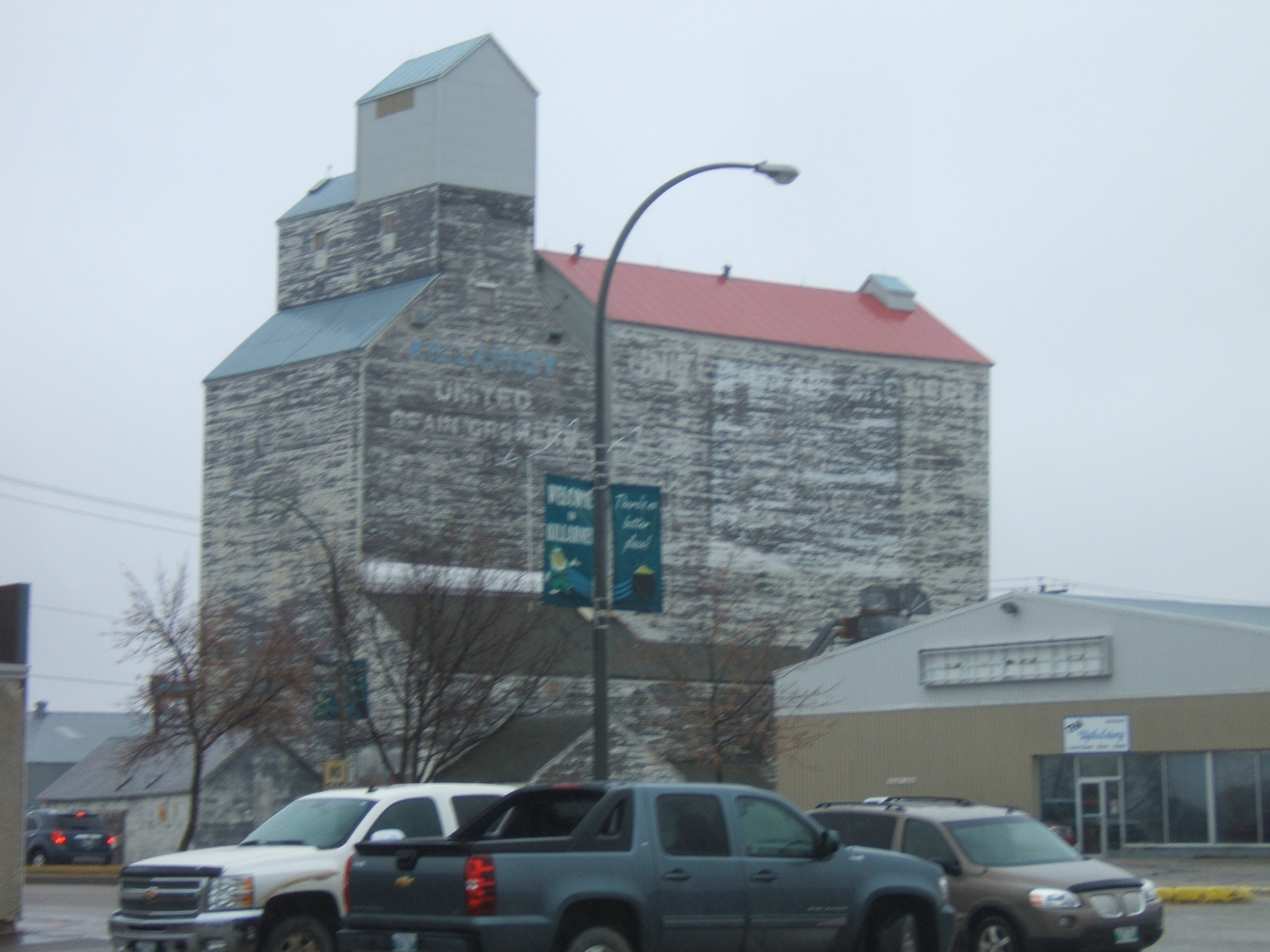 The old Killarney, Manitoba grain elevator. Picture was taken on May the 7th of 2014.